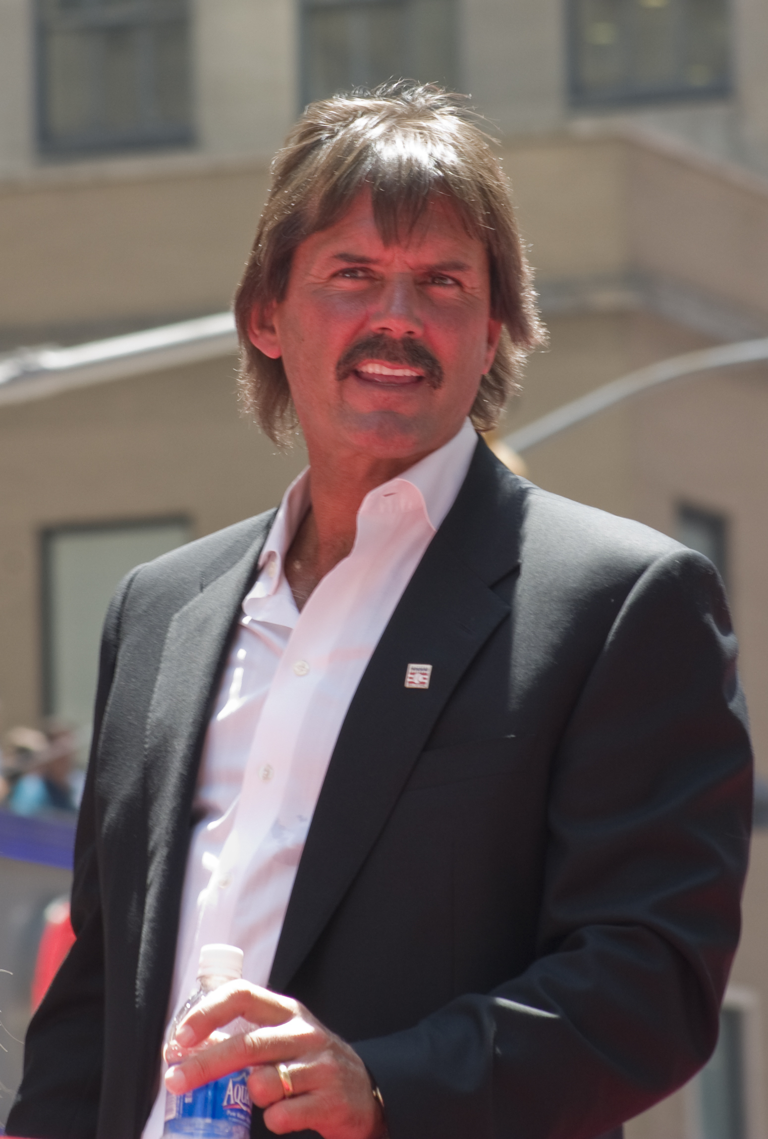 Dennis Eckersley at the All-Star Game Red Carpet Parade 2008. Photographer Martyna Borkowski. Originally Uploaded by Tabercil, CC BY 2.0. BIOGRAPHY - Dennis Lee Eckersley (born 1954) is an American former professional baseball pitcher. Between 1975 and 1998, he pitched in Major League Baseball (MLB) for the Cleveland Indians, Boston Red Sox, Chicago Cubs, Oakland Athletics, and St. Louis Cardinals. Eckersley was elected to the Baseball Hall of Fame in 2004, his first year of eligibility.